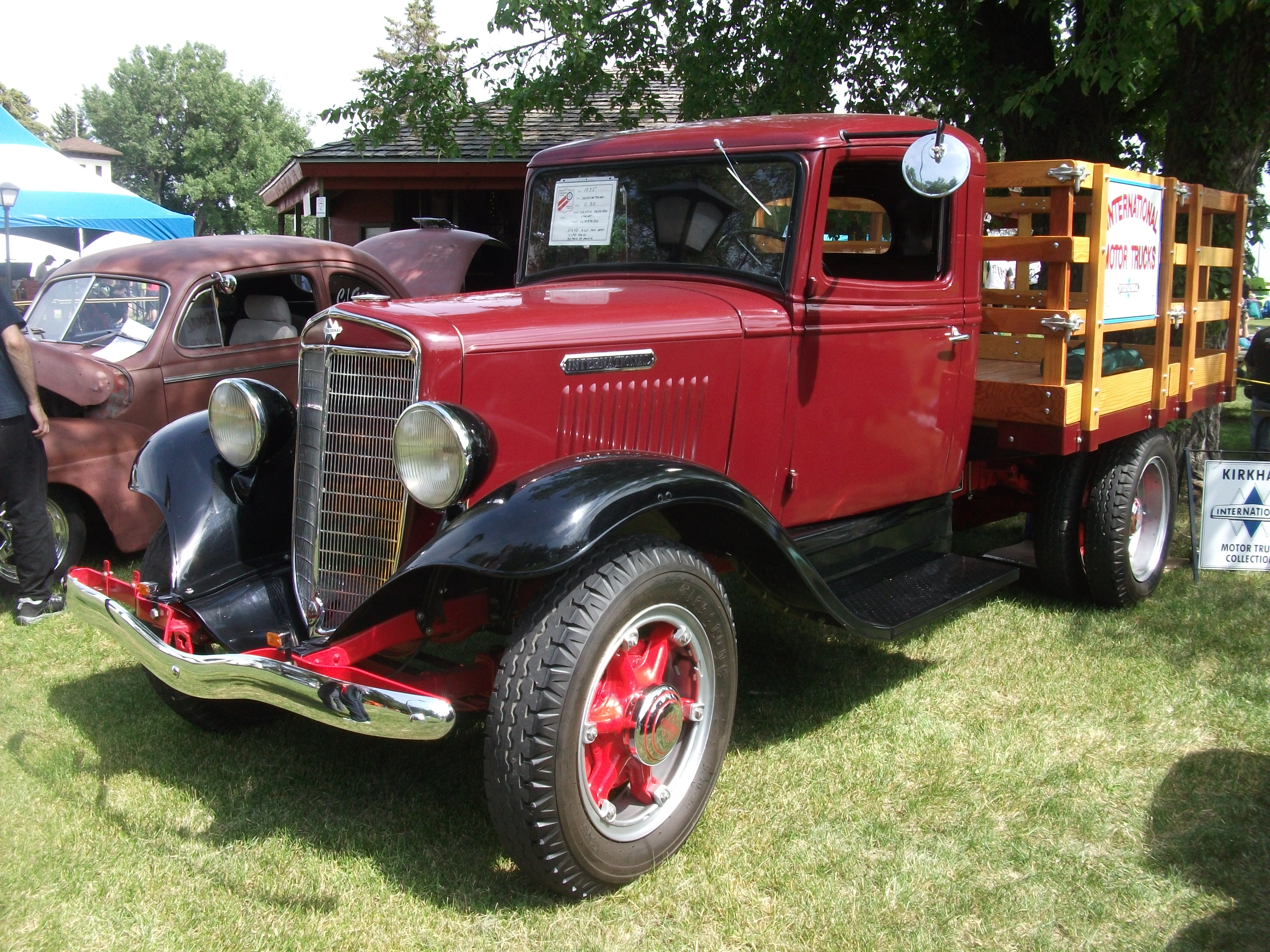 1935 International C30 truck